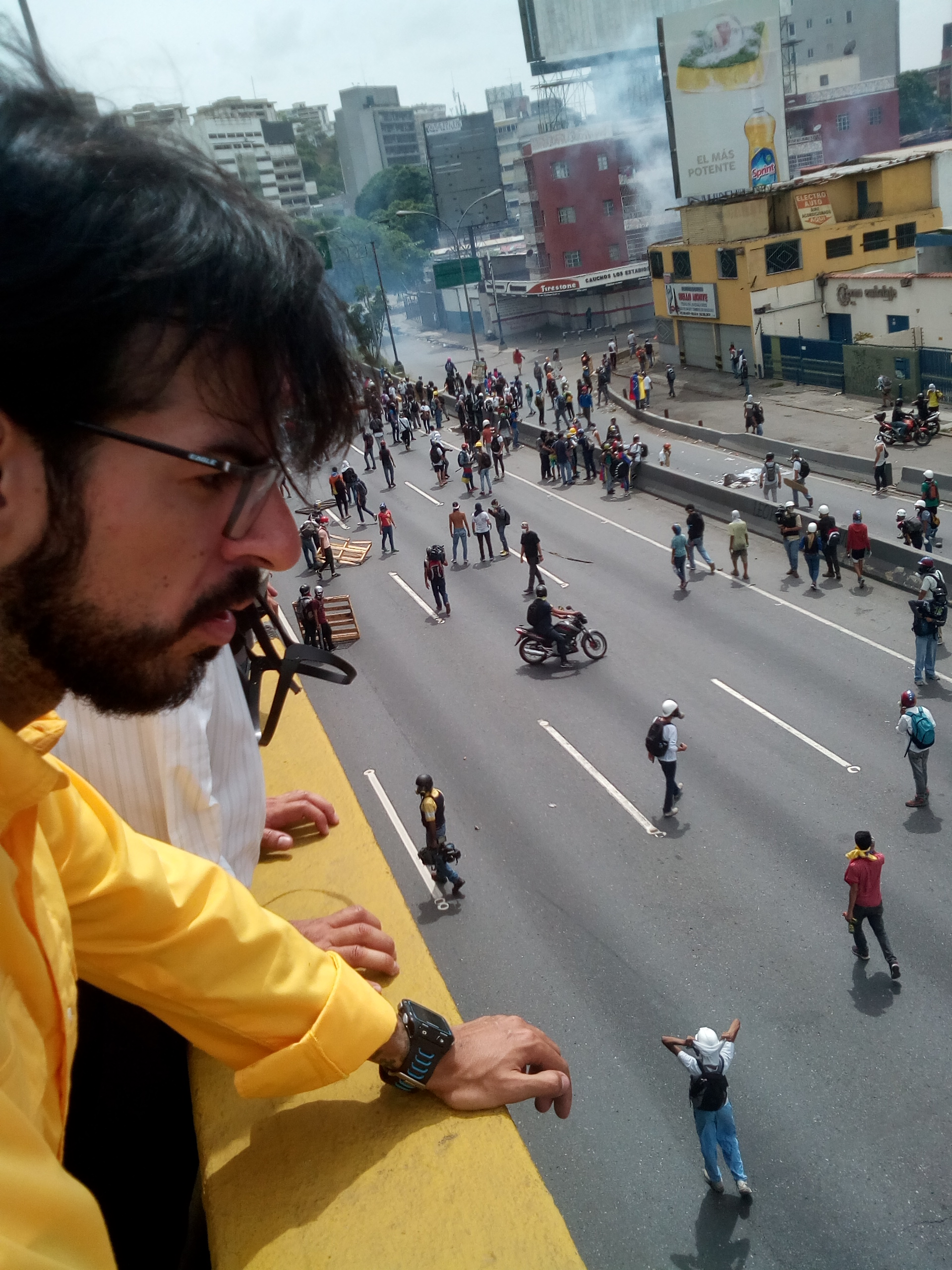 Miguel Pizarro en la marcha de los médicos el 22 de mayo de 2017 en Caracas, Venezuela.